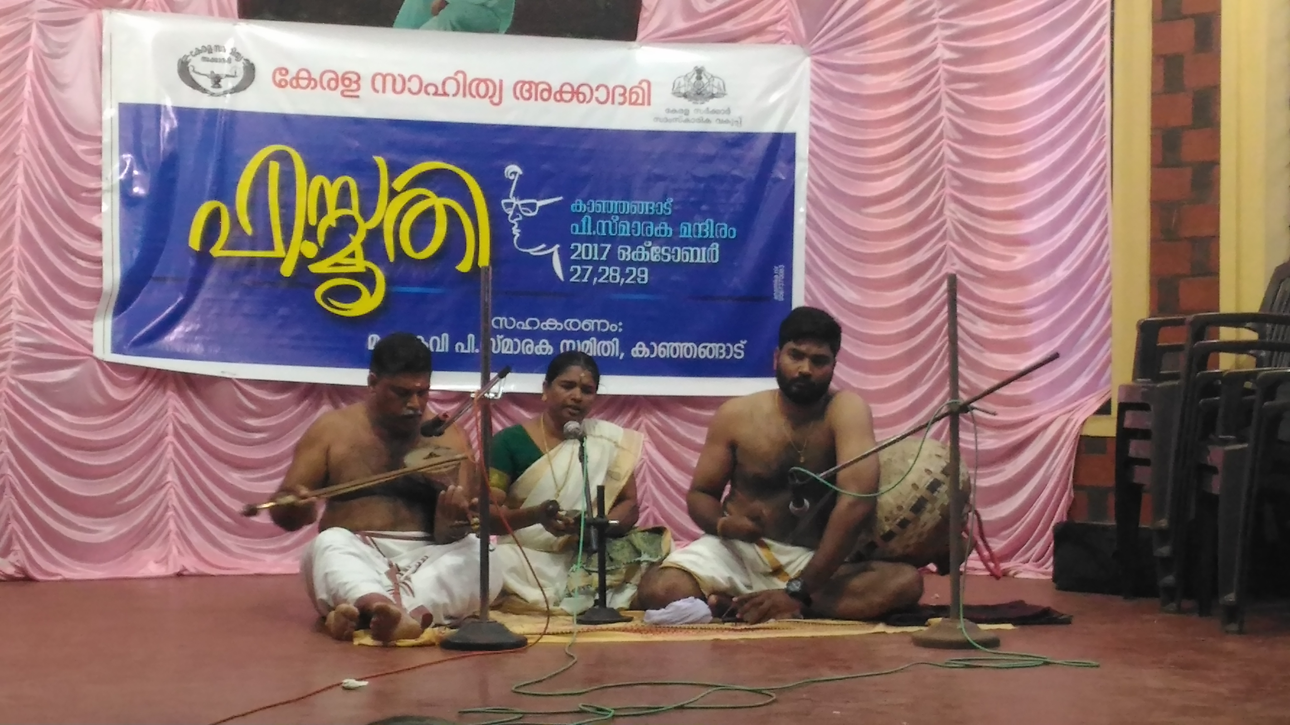 Pulluvan pattu_pulluvan kudam